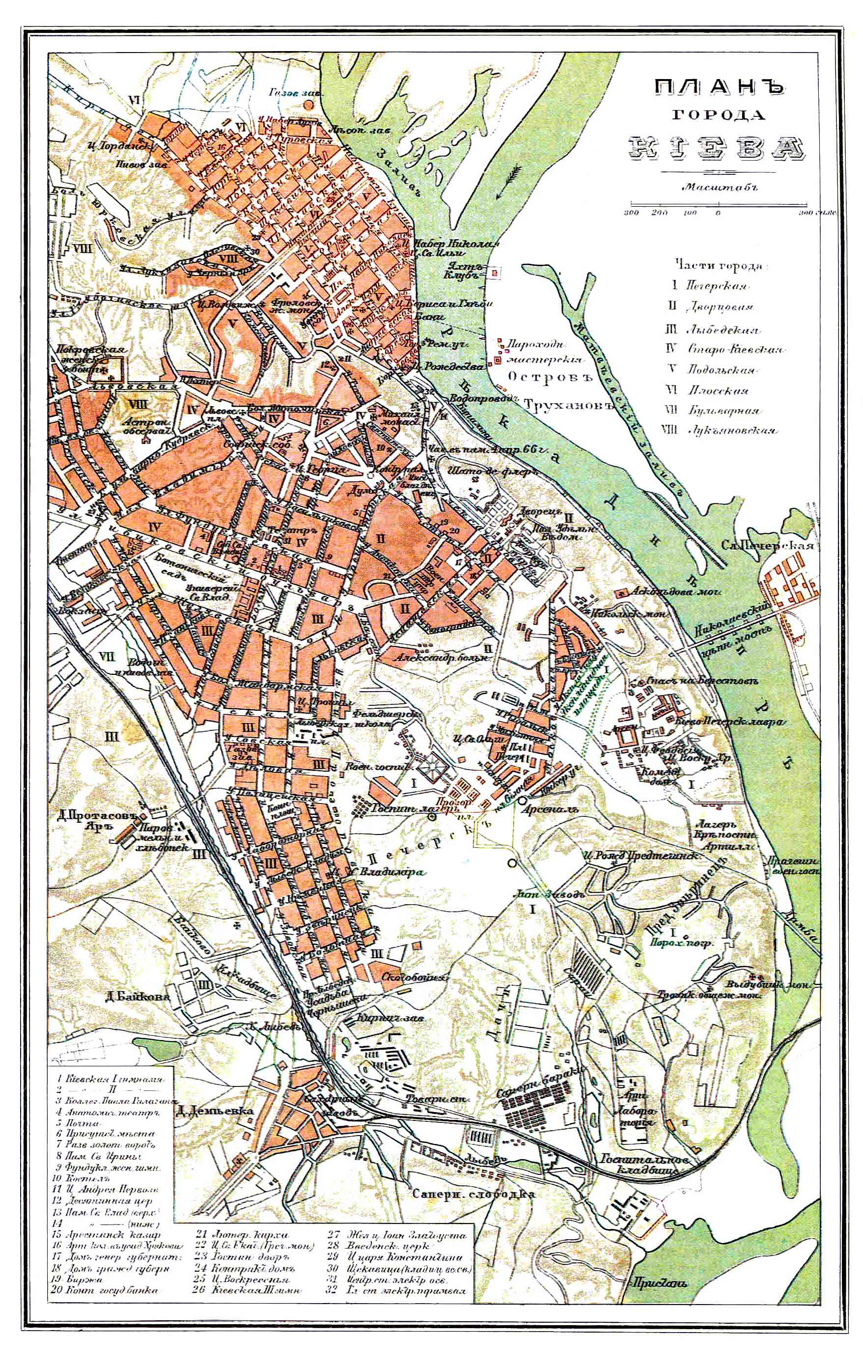 Illustration from Brockhaus and Efron Encyclopedic Dictionary (1890—1907)